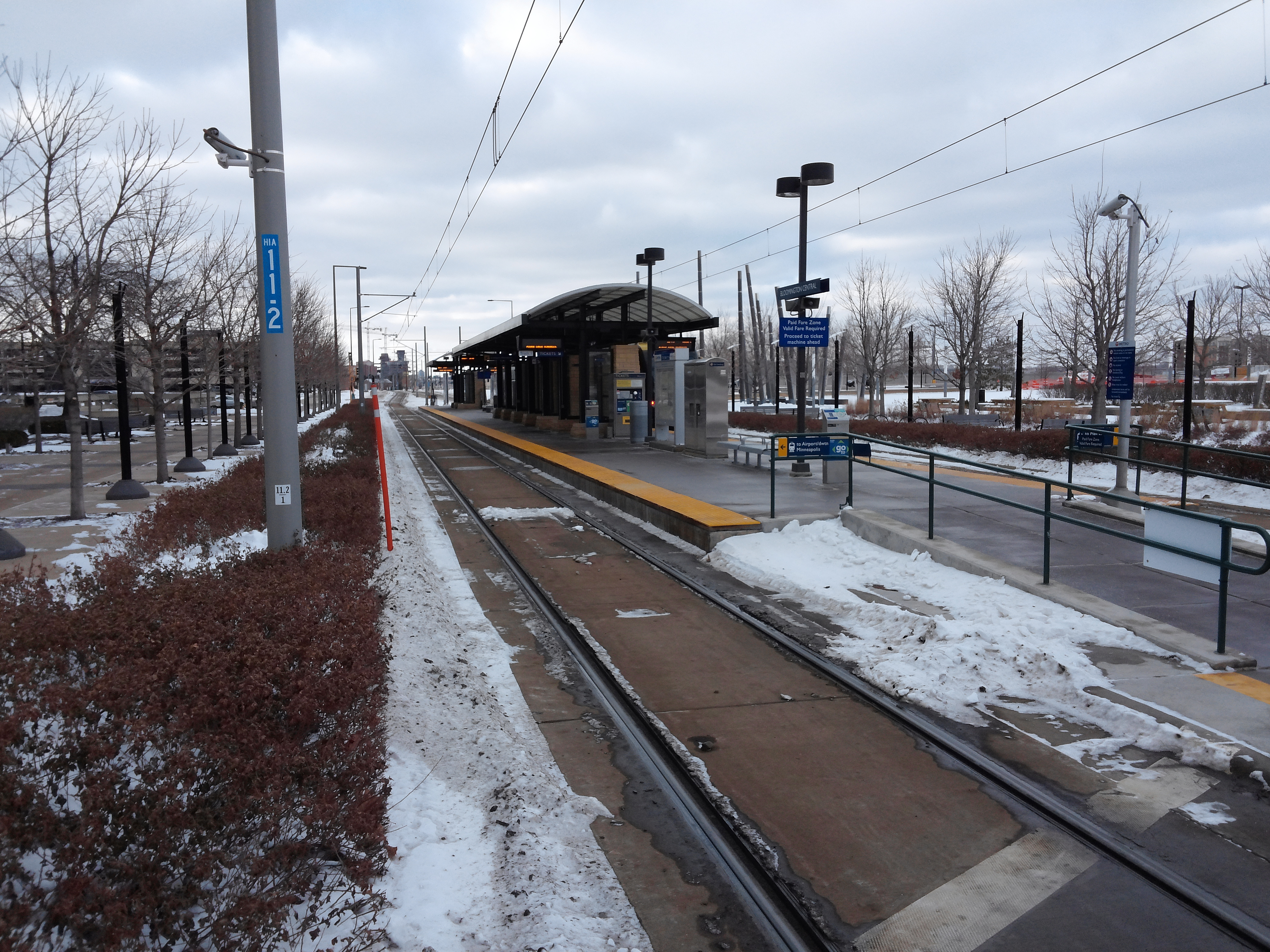 Bloomington Central station on the METRO Blue Line, facing south.